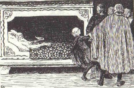 Illustration of Edwin the Old (Aun den gamle), a myhological Swedish king in the Heimskringla. Aun reached extremely old age by successively sacrificing his sons to Odin; the illustraton shows the final stage where the king is "so old that he had to feed, like a little child, by suckling on a horn." His final son is being led away to sacrifice.